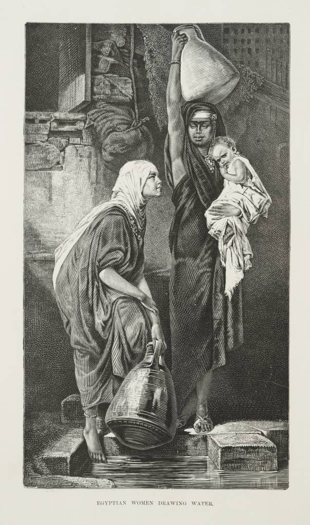 Two women holding large water jugs. One is carrying an infant.